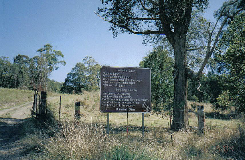 Bundjalung language sign, near Nimbin Rocks.